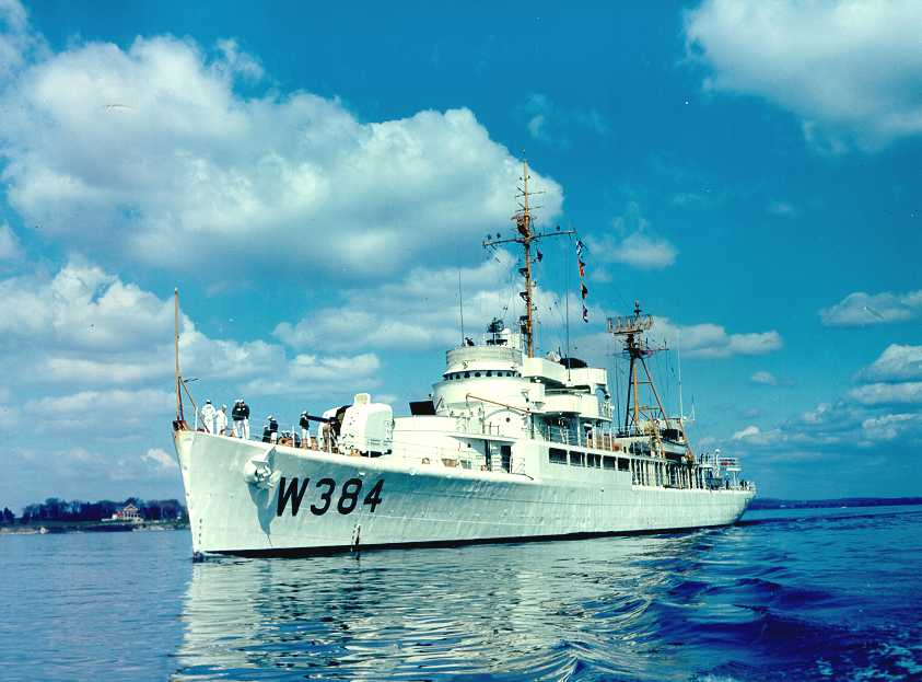 USCGC Cook Inlet (WHEC-384) - cropped This image or file is a work of a United States Coast Guard service personnel or employee, taken or made as part of that person's official duties. As a work of the U.S. federal government, the image or file is in the public domain (17 U.S.C. § 101 and § 105, USCG main privacy policy and specific privacy policy for its imagery server).